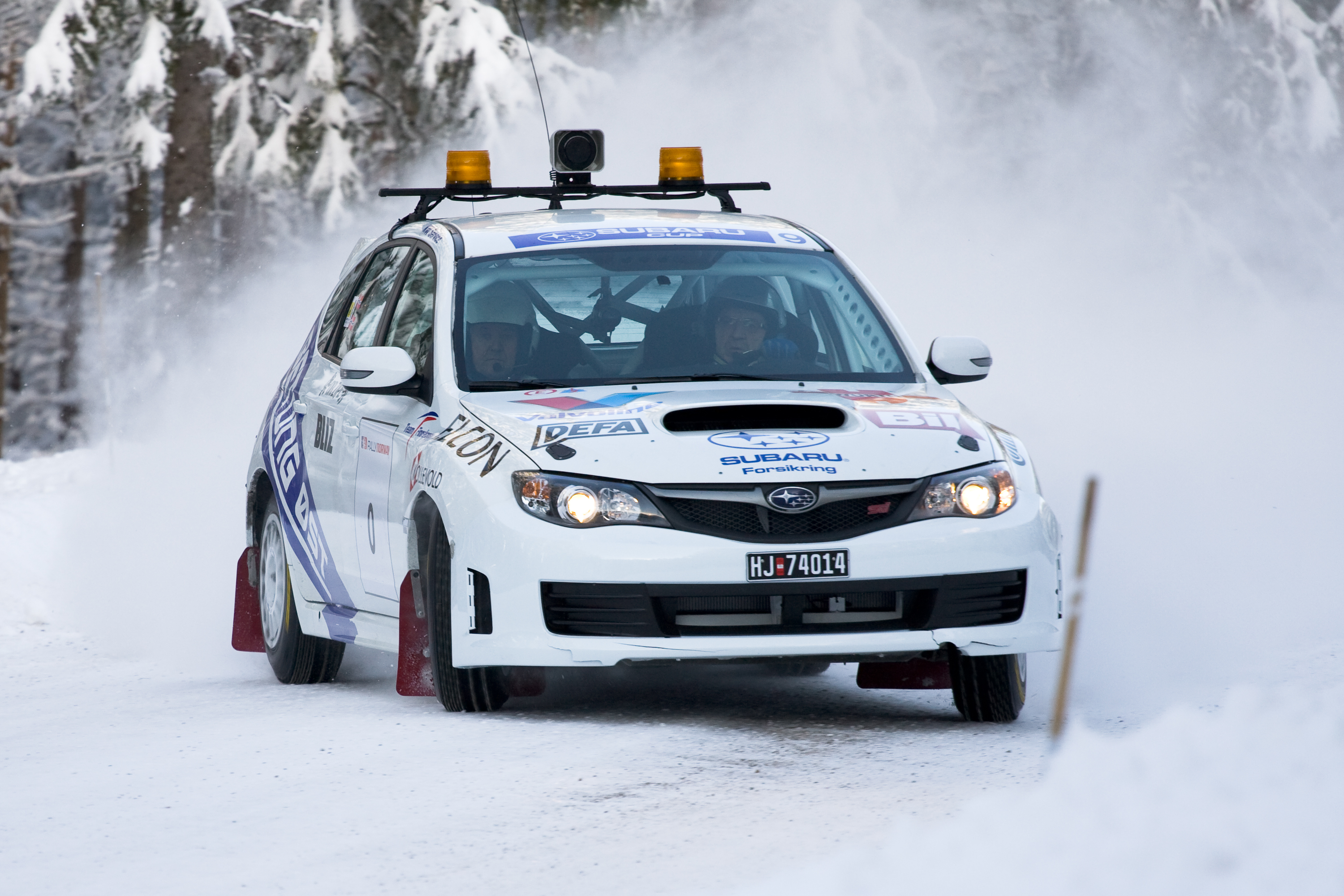 Road Closing Car "0" from Rally Norway 2009